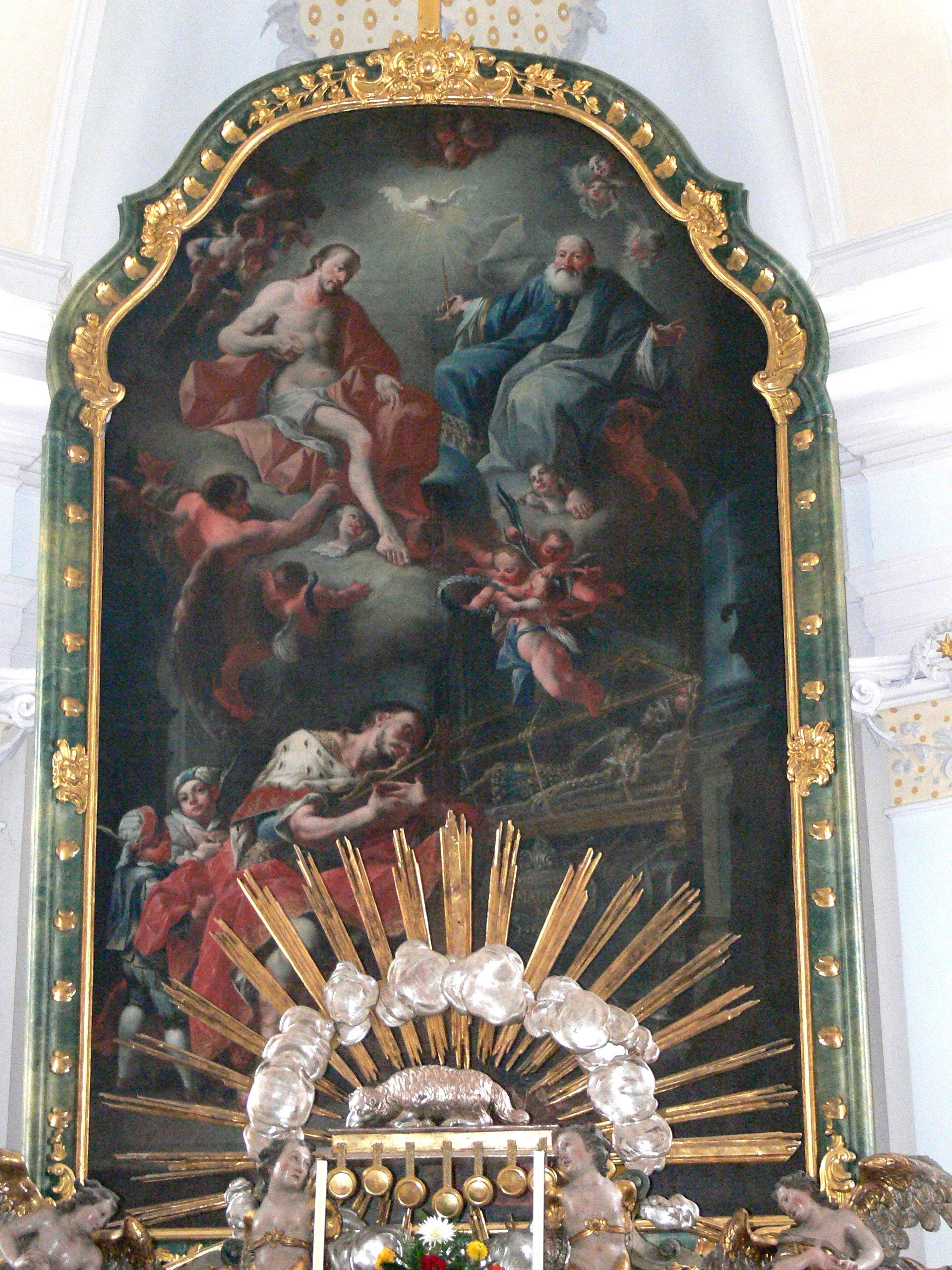 Saint Sigismund parish church in Strobl, Salzburg ( Austria ). High altar ( 1760 ): Saint Sigismund praying in front of the relics of Saint Maurice in the abbey of Saint Maurice d´Agaune seeking absolution for murdering his son Sigerich in 523.